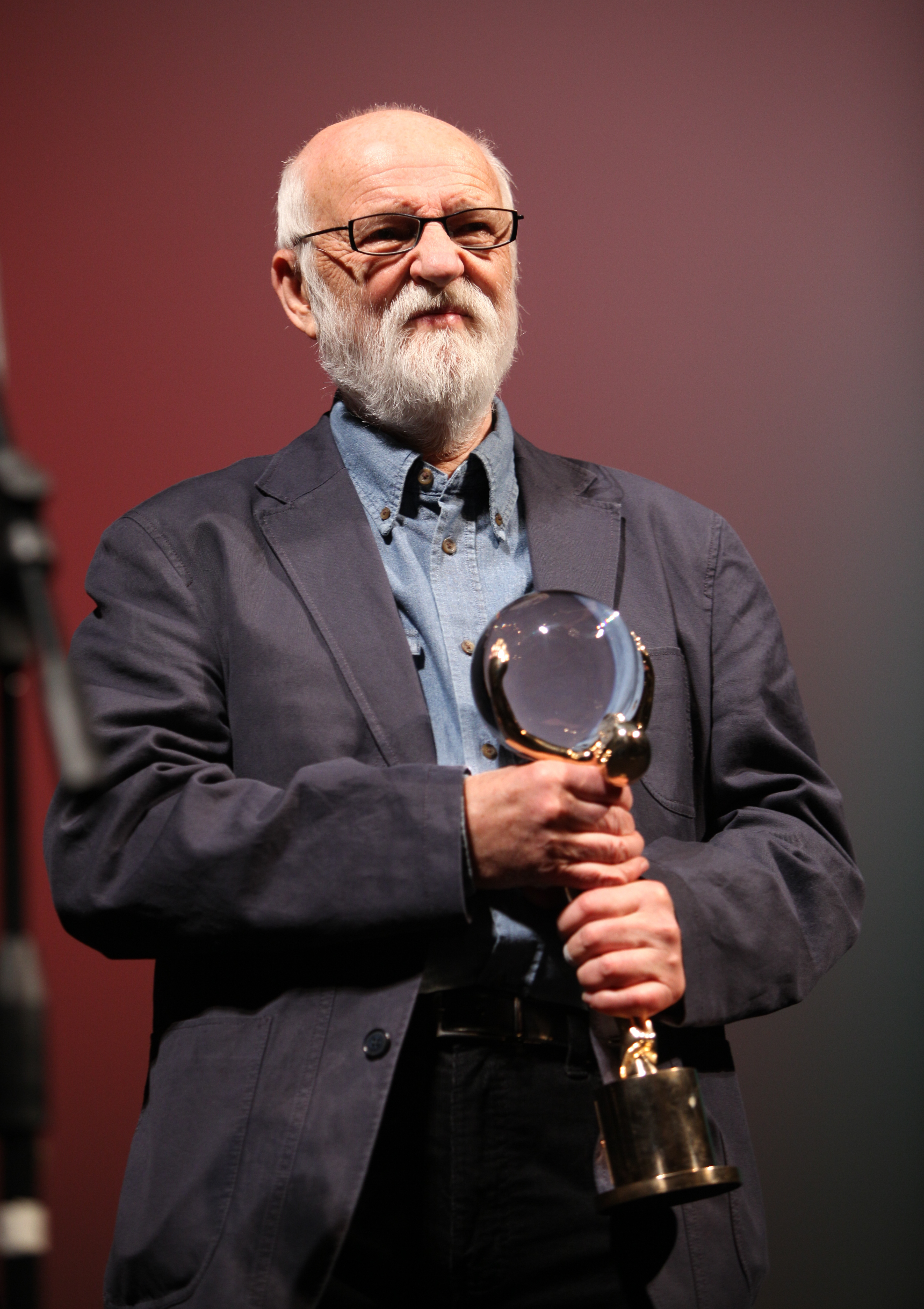 Czech film director Jan Švankmajer holds Special Crystal Globe for outstanding artistic contribution to the world cinemas in he has received at 44th Karlovy Vary International Film Festival